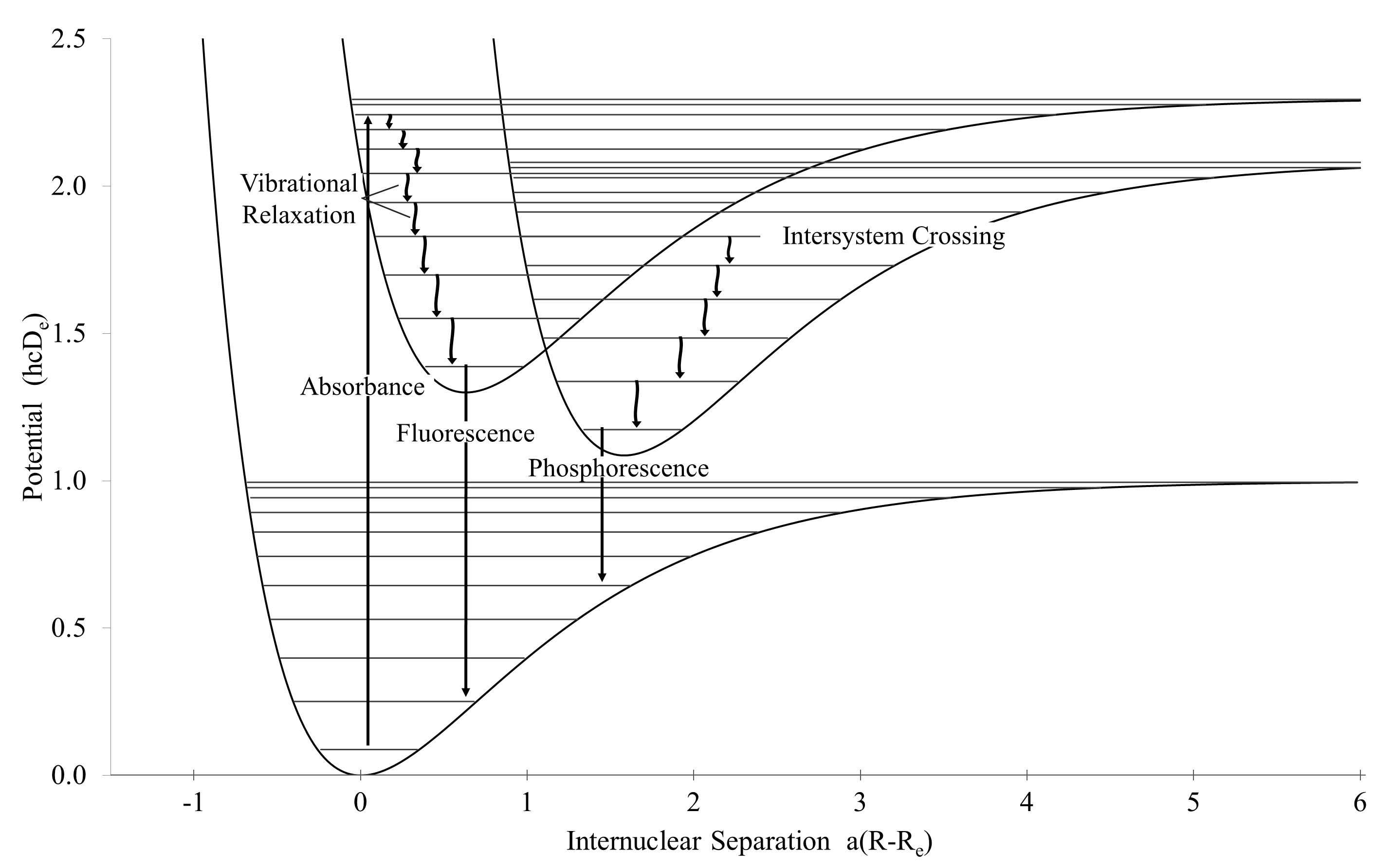 Common processes of electron interaction with light. Absorbed radiation may be emitted by vibrational relaxation, fluorescence, or phosphorescence (after intersystem crossing). For suggestions on improving the image, please contact the author. Constants are: h {\displaystyle h} Planck's Constant, c {\displaystyle c} speed of light, D e {\displaystyle D_{e depth of potential minimum, a = m eff π ν 2 ℏ c D e {\displaystyle a={\sqrt {m_{\text{eff \pi \nu ^{2} \over \hbar cD_{e , R {\displaystyle R} is the distance from the minimum of the curve R e {\displaystyle R_{e as given by Atkins. [1] References ↑ Atkins, P.; de Paula, J.; Froedman, R. Quanta, Matter, and Change A molecular approach to physical chemistry.; W.H. Freeman: New York, 2009.